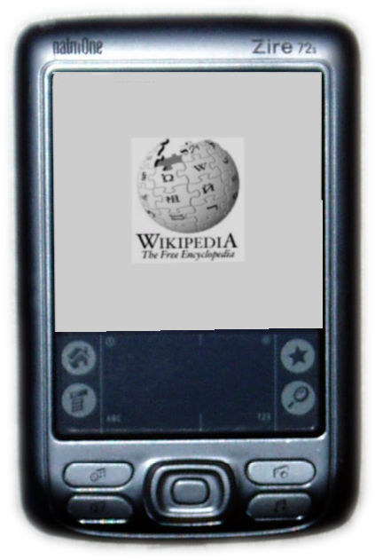 This is a picture of a Zire 72s PDA from palmOne.